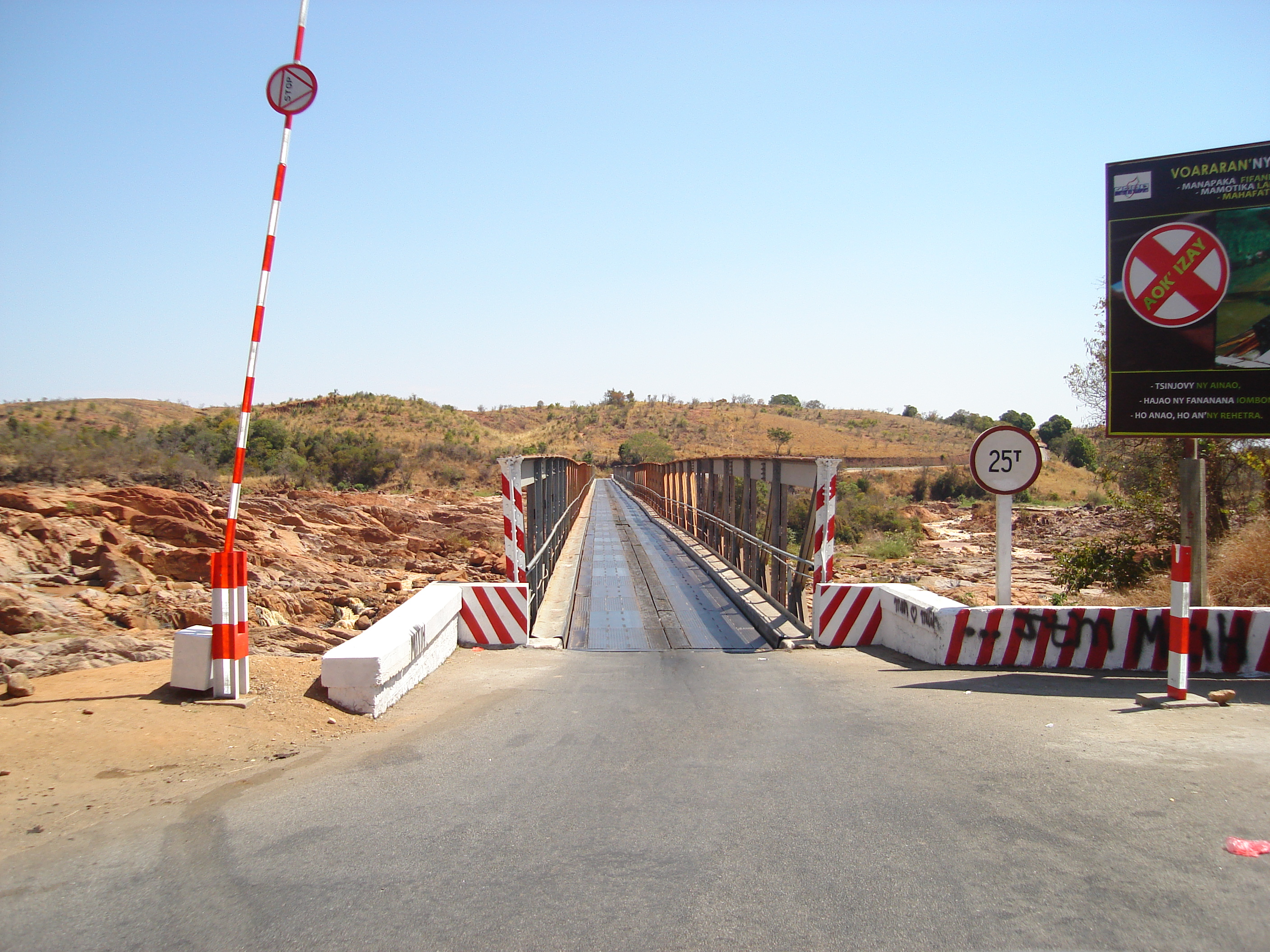 Madagascar National Road No. 4 crossing the Betsiboka River, 22 km north of Maevatanana. View in southern direction.